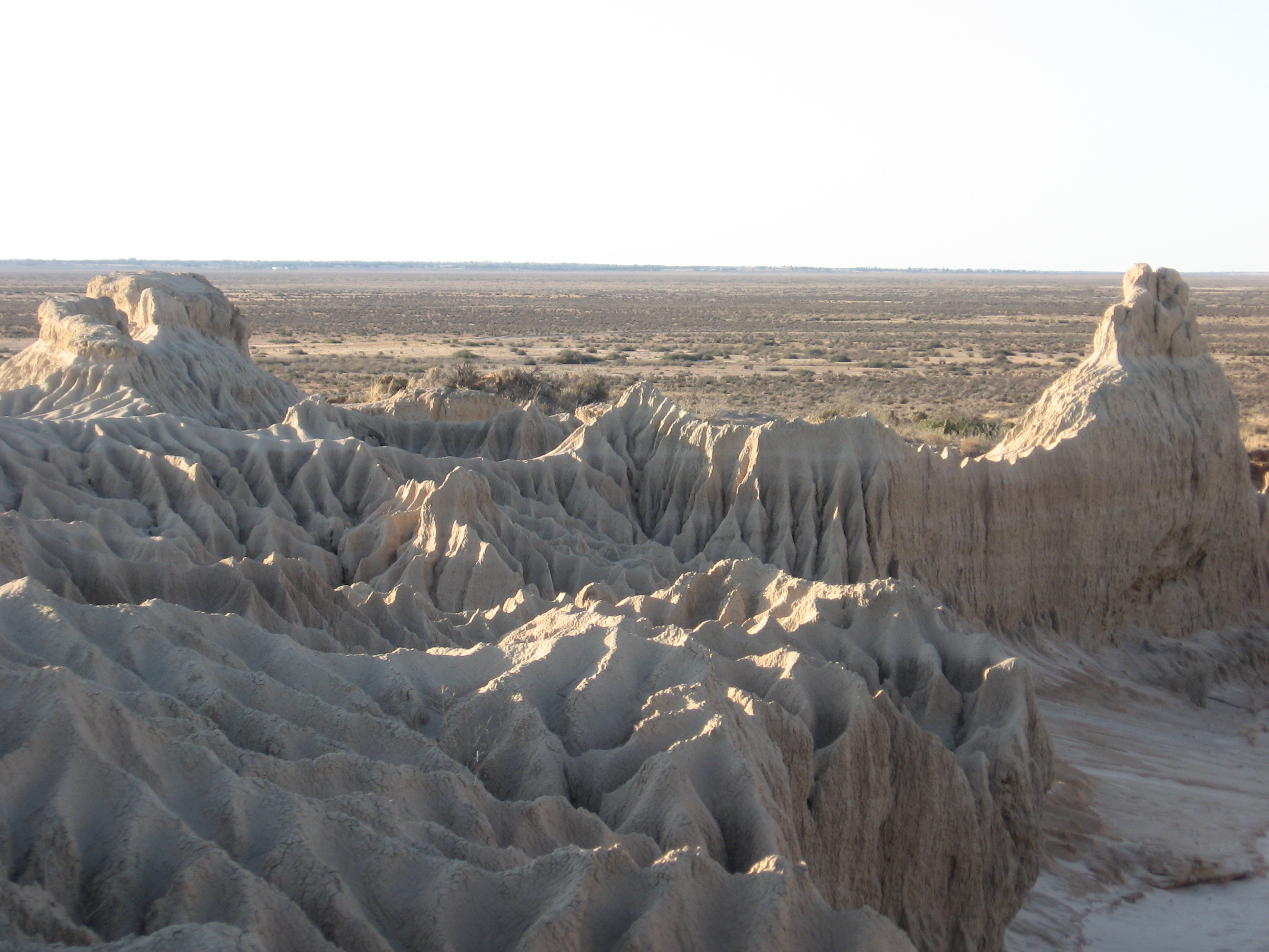 Walls of China, Mungo National Park, Australia